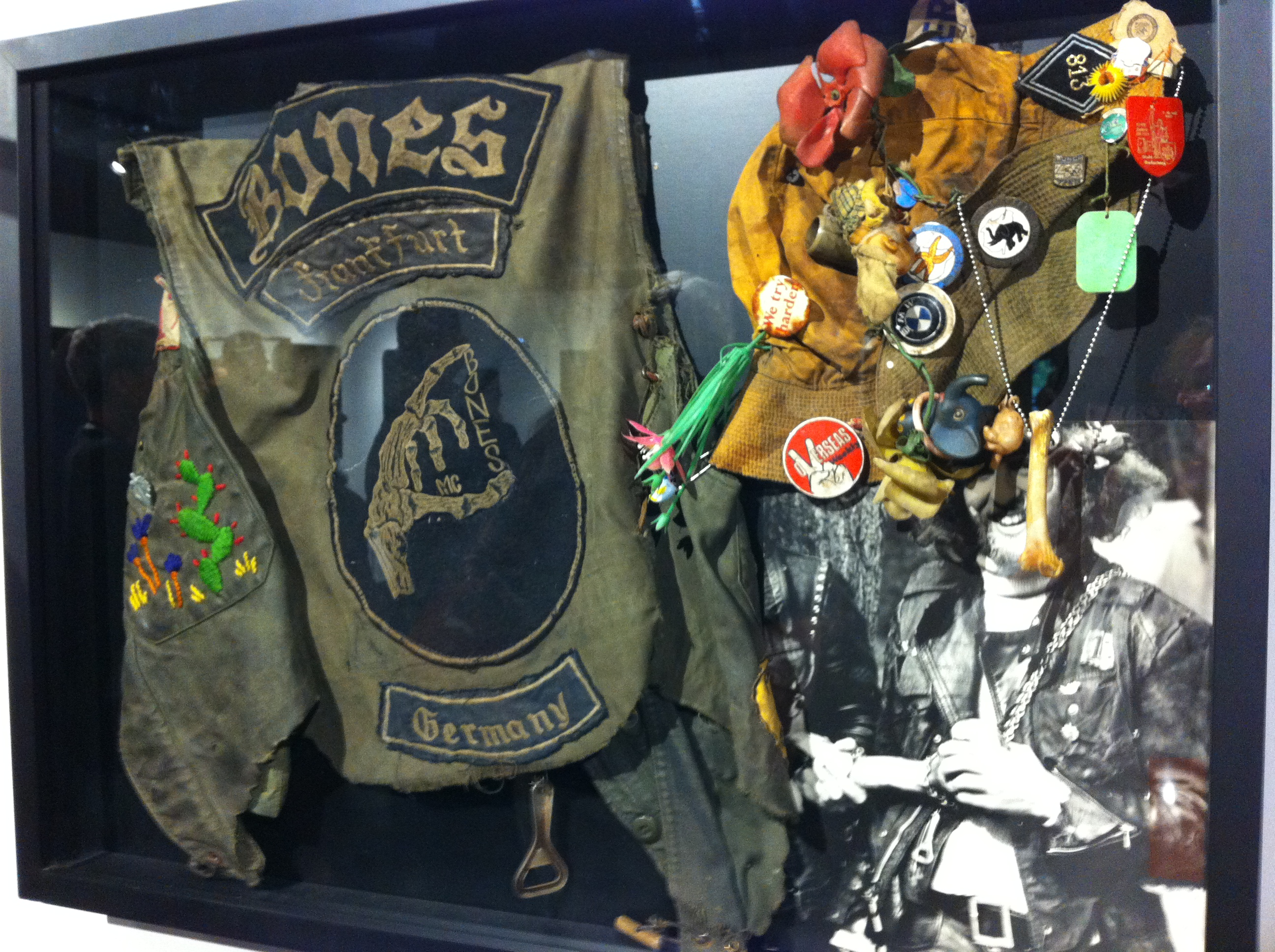 Bones Motorcycle Club, Frankfurt, Germany, colors. Exhibit of outlaw motorcycle club vests and jackets.